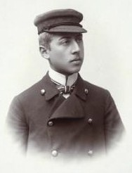 Herbert Silberer